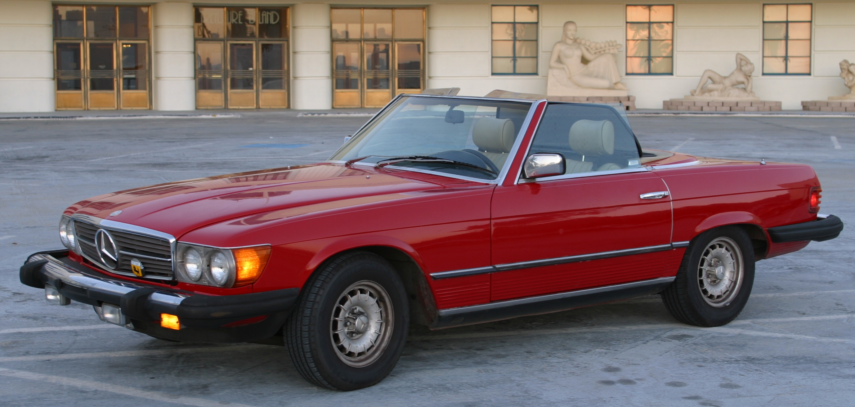 Image of a Mercedes-Benz 380SL automobile, model year 1983, US version. Exterior color red (not a factory shade), interior color "Creme" (155). The US version is distinguished by its larger bumpers, designed to meet US-specific 5mph crash-worthiness tests. Also shown is a factory windscreen accessory, behind the seats.